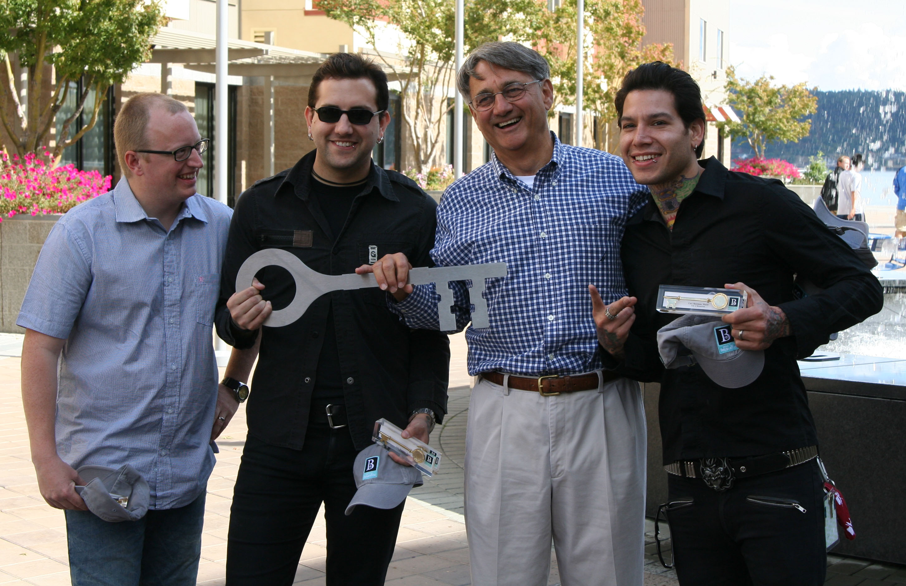 Picture I took of the band MxPx recieving the key to the City of Bremerton from Mayor Cary Bozeman.